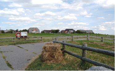 Hallig Oland, North Frisia, as seen from the harbour